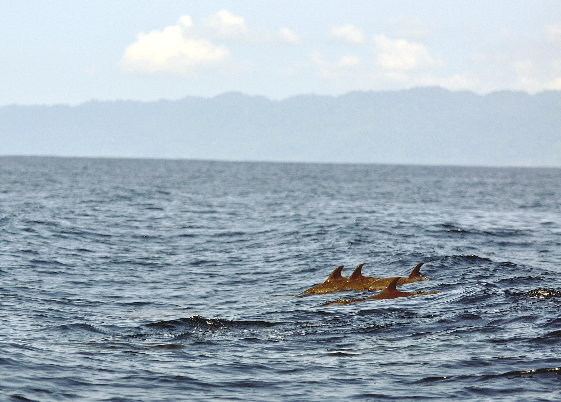 A pod of pacific spotted dolphins in the Pacific Ocean off the Osa Peninsula, Costa Rica